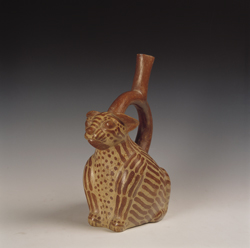 Moche Ocelot. Larco Museum Collection. Lima, Peru.